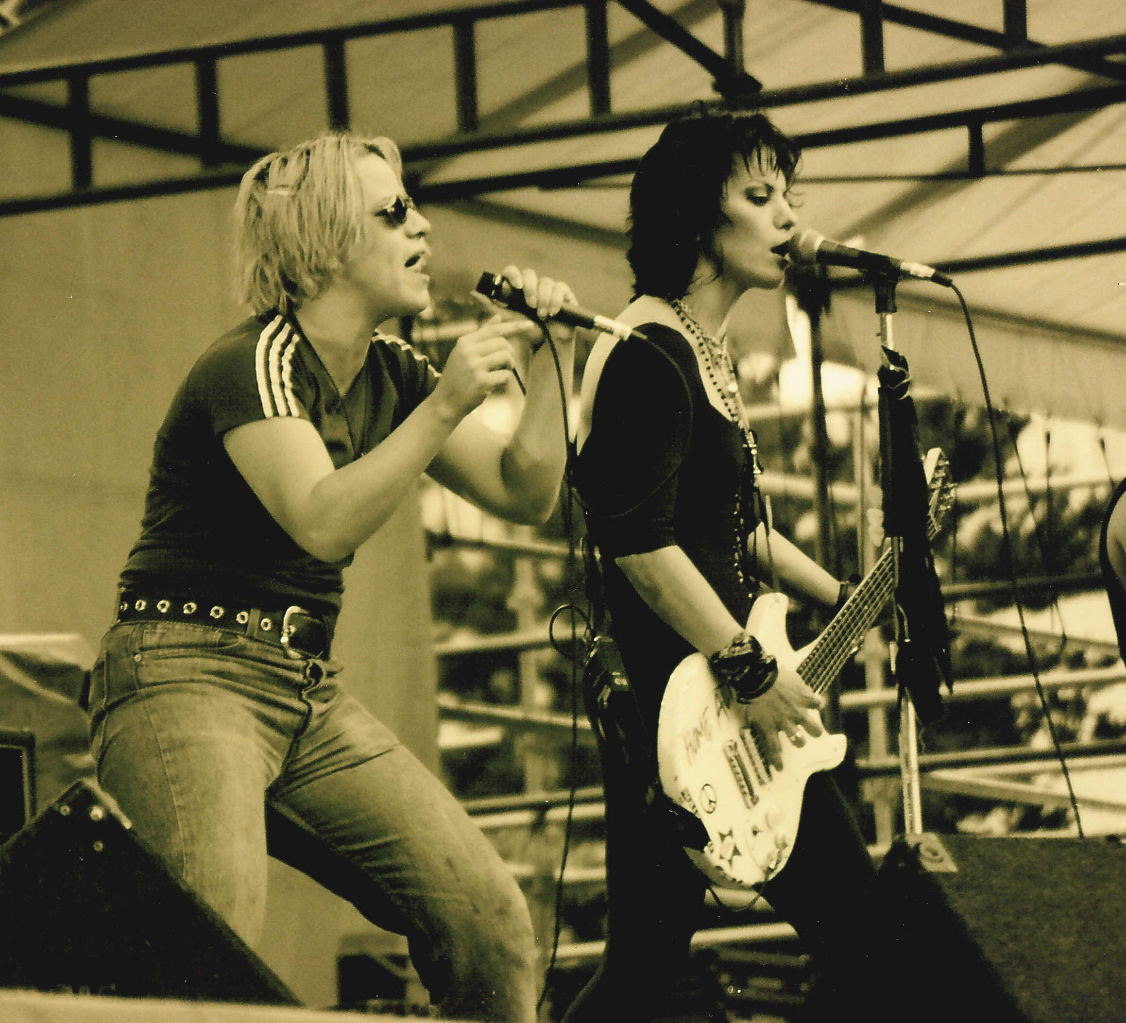 Joan Jett (right), Bumbershoot festival, Seattle, Washington, 1994.